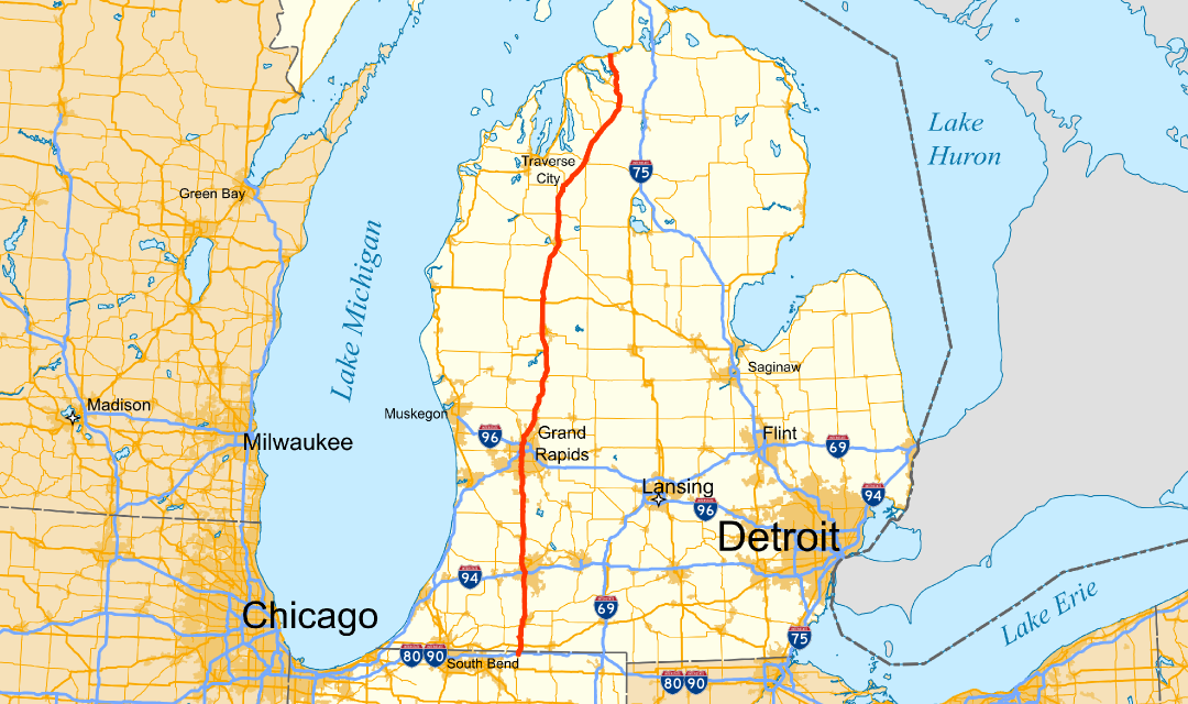 Map of U.S. Highway 131